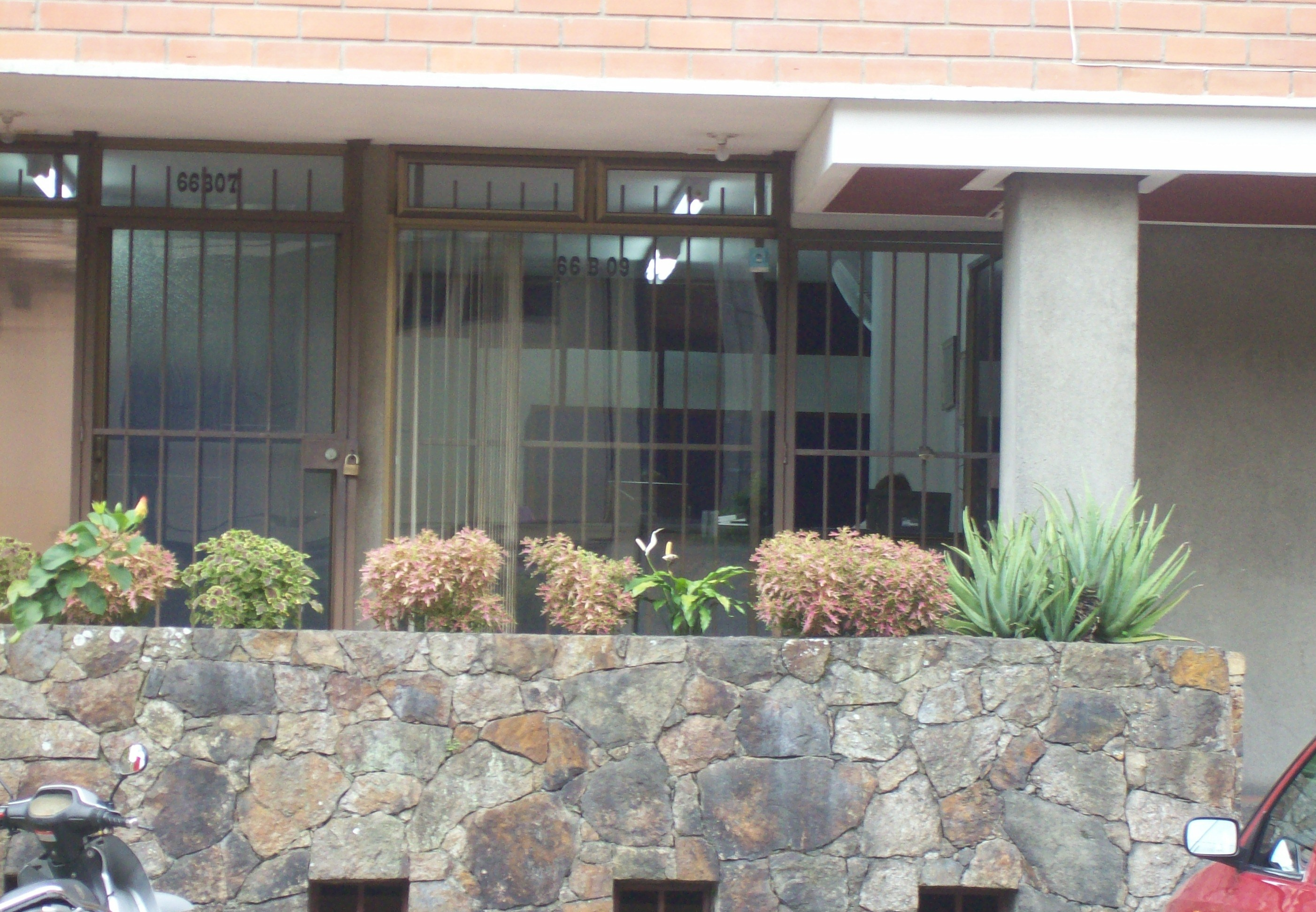 Poland consulate in Medellín at Circular 4 N° 66B - 09